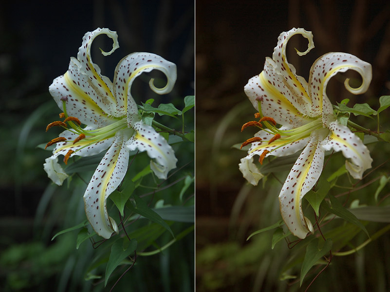 Photograph of a lily, both as shot and manually white-balanced. On the left is a digital photo as it came from the camera with no further adjustment to color. On the right is the same photo, using the same Photoshop Levels adjustments that make a gray surface in another photograph taken in the same light come out gray.